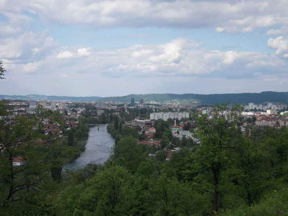 Panorama of Banja Luka